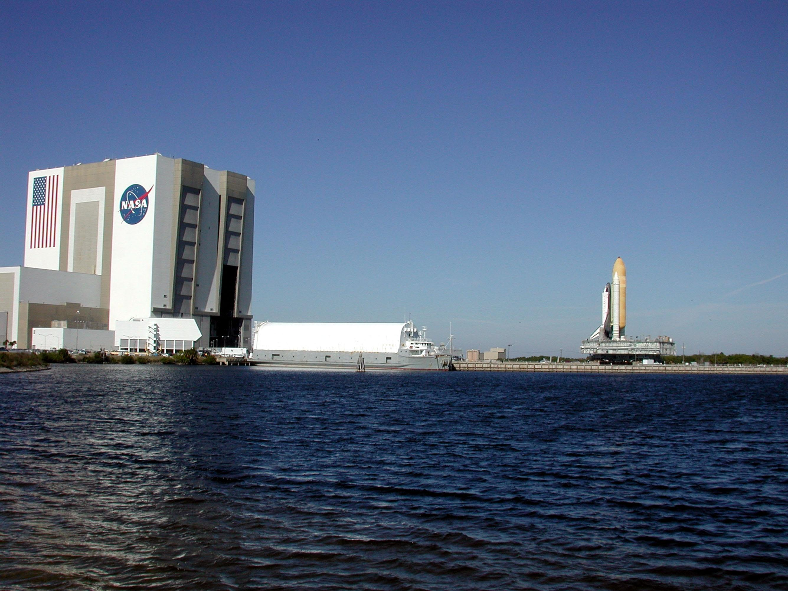 Space Shuttle Atlantis, on its Mobile Launcher Platform, is seen from across the turn basin as it rolls out to Launch Pad 39A for the second time. An attempt to roll out on Jan. 2 incurred a failed computer processor on the first crawler transporter. The Shuttle was returned to the VAB using a secondary computer processor on the vehicle. Atlantis will fly on mission STS-98, the seventh construction flight to the International Space Station, carrying the U.S. Laboratory, named Destiny. The lab module will have five system racks already installed inside. After delivery of electronics in the lab, electrically powered attitude control for Control Moment Gyroscopes will be activated. Atlantis is scheduled for launch no earlier than Jan. 19, 2001, with a crew of five.